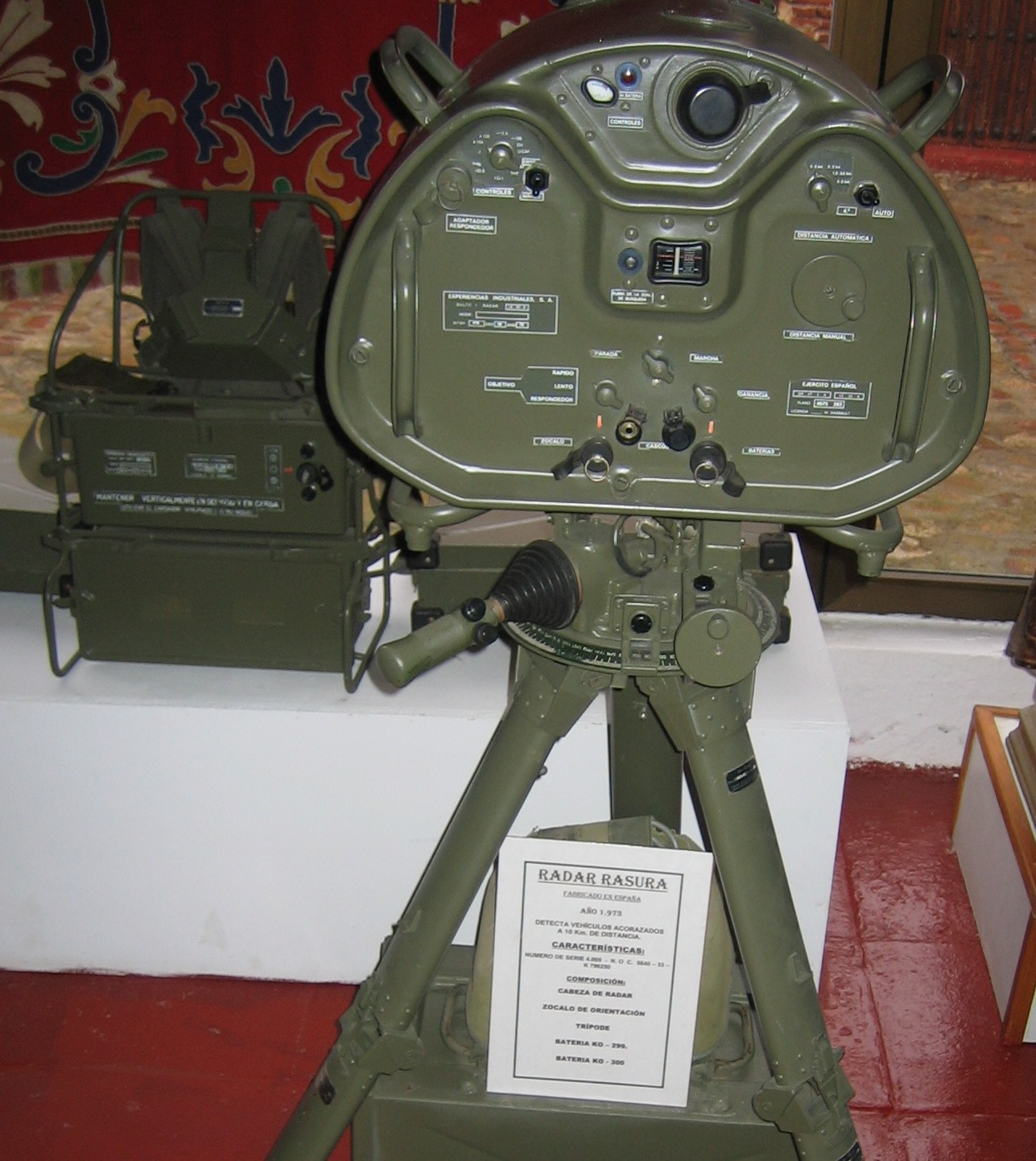 Rasura radar of the Spanish Army